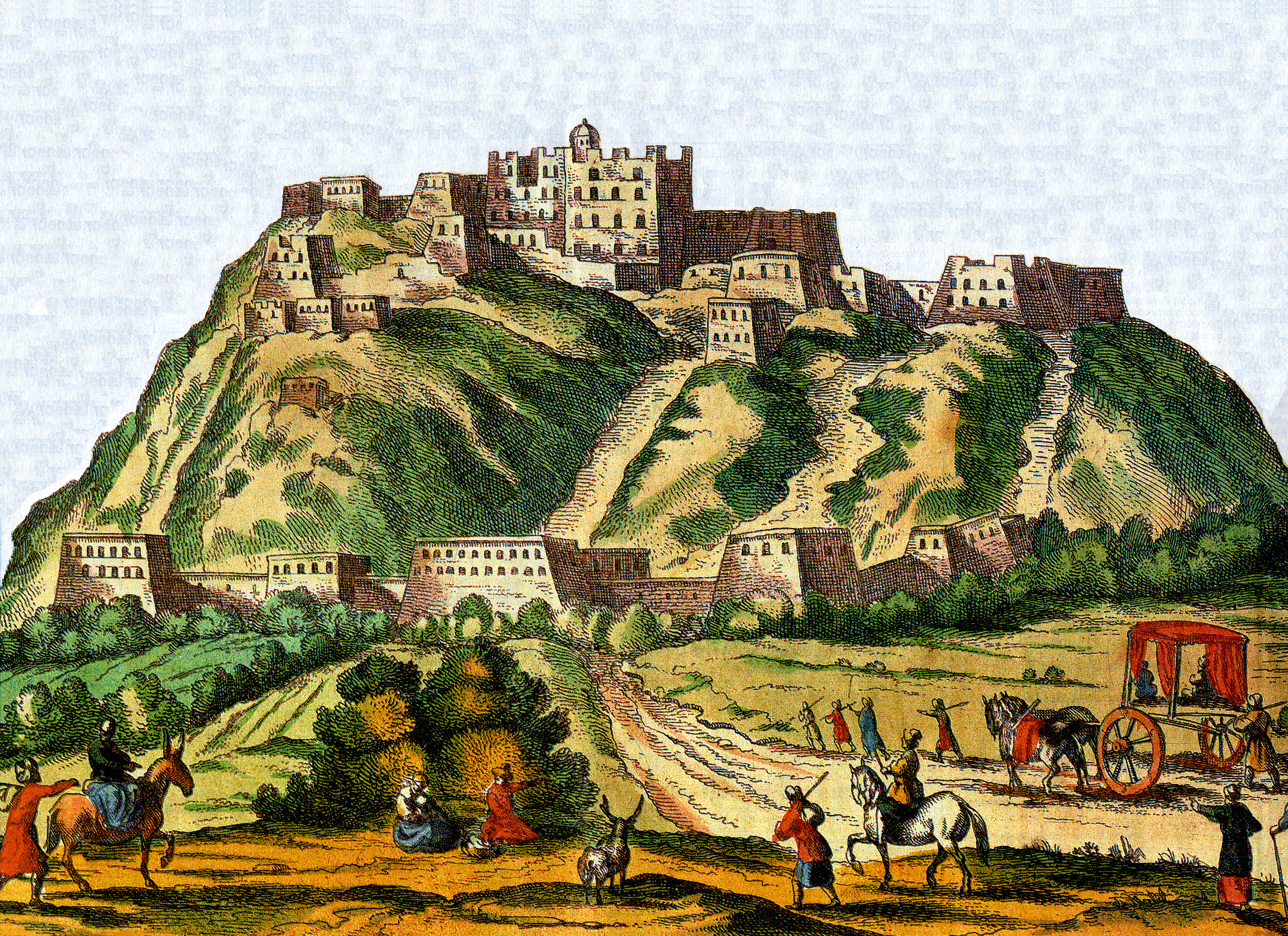 Illustration of Lhasa/Tibet